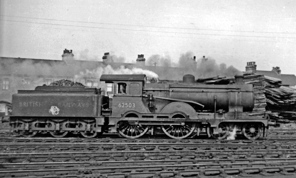 An old Great Eastern 4-4-0 at Cambridge Locomotive Depot. No. 62503 was one of the older (1900) Russell/Holden 'Claud' 4-4-0 express engines of the Great Eastern Railway, LNER Class D14 (D15 after rebuilding) and with a small 'water-cart' tender. By 1949 this engine had long been relegated to light duties and was scrapped early in 1951. Cambridge Shed was a major Depot with an allocation of about 125 locomotives at that time, including a variety of elderly types.